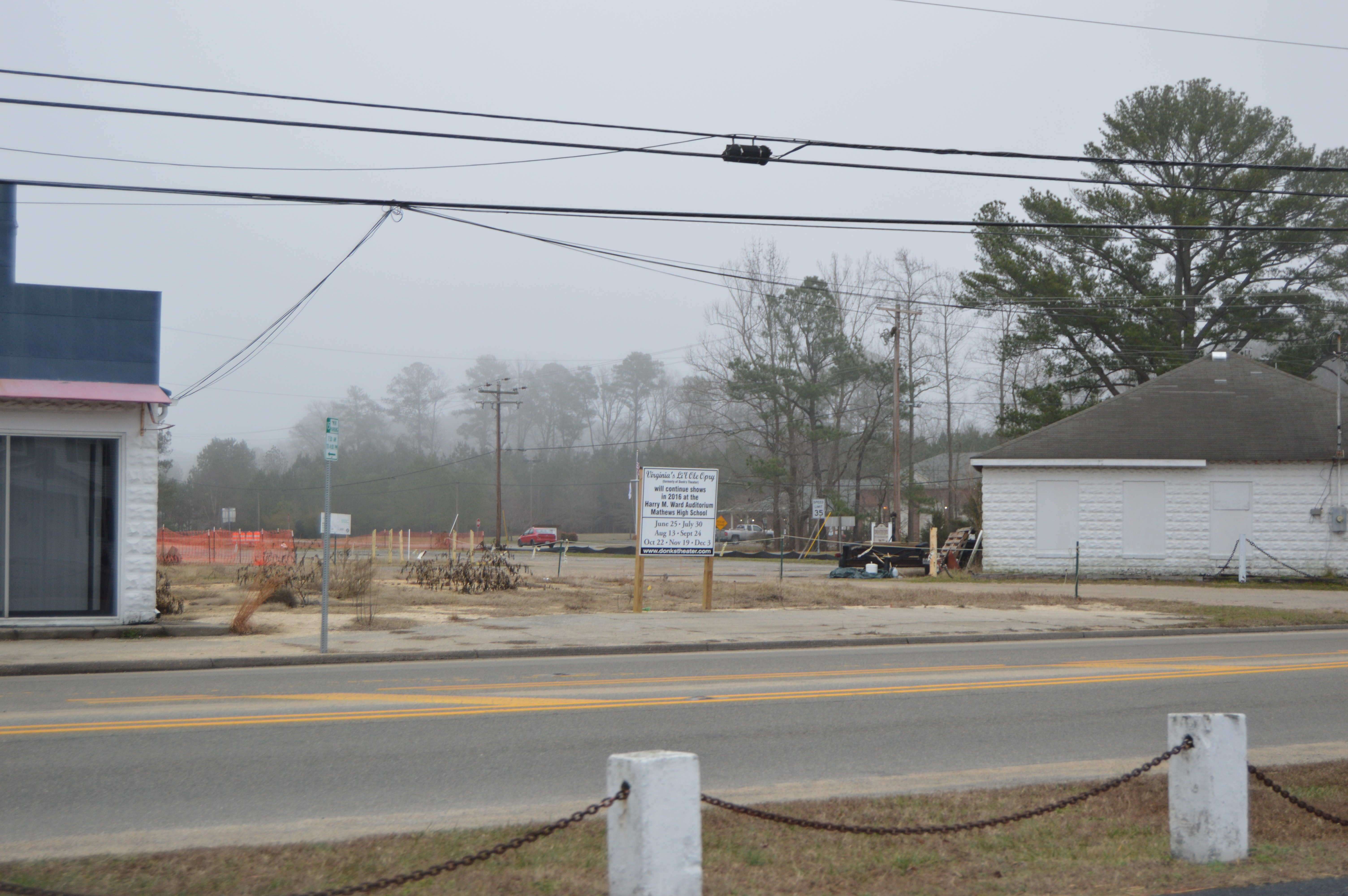 An empty lot on the eastern side of State Route 198, just north of the State Route 223 intersection, at Hudgins in Mathews County, Virginia, United States. This was formerly the location of Donk's Theatre; built in 1947 and listed on the National Register of Historic Places in 2011, it collapsed in 2016 and was removed from the Register a month after this photo was taken.